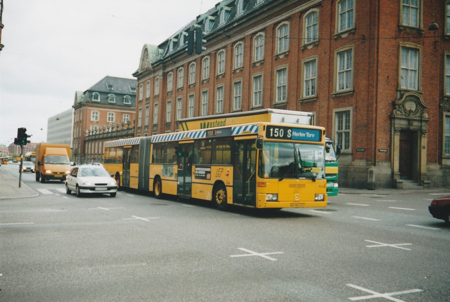 Arriva bus 1938 on HT bus line 150S on Bernstorffsgade at Tietgensgade in Vesterbro in Copenhagen. The bus is going for Kokkedal Station despite saying Herlev Torv on the front and Hundige Station on the side.